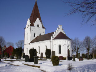 Own file, own photo